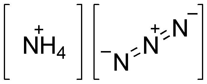 chemical structure of ammonium azide